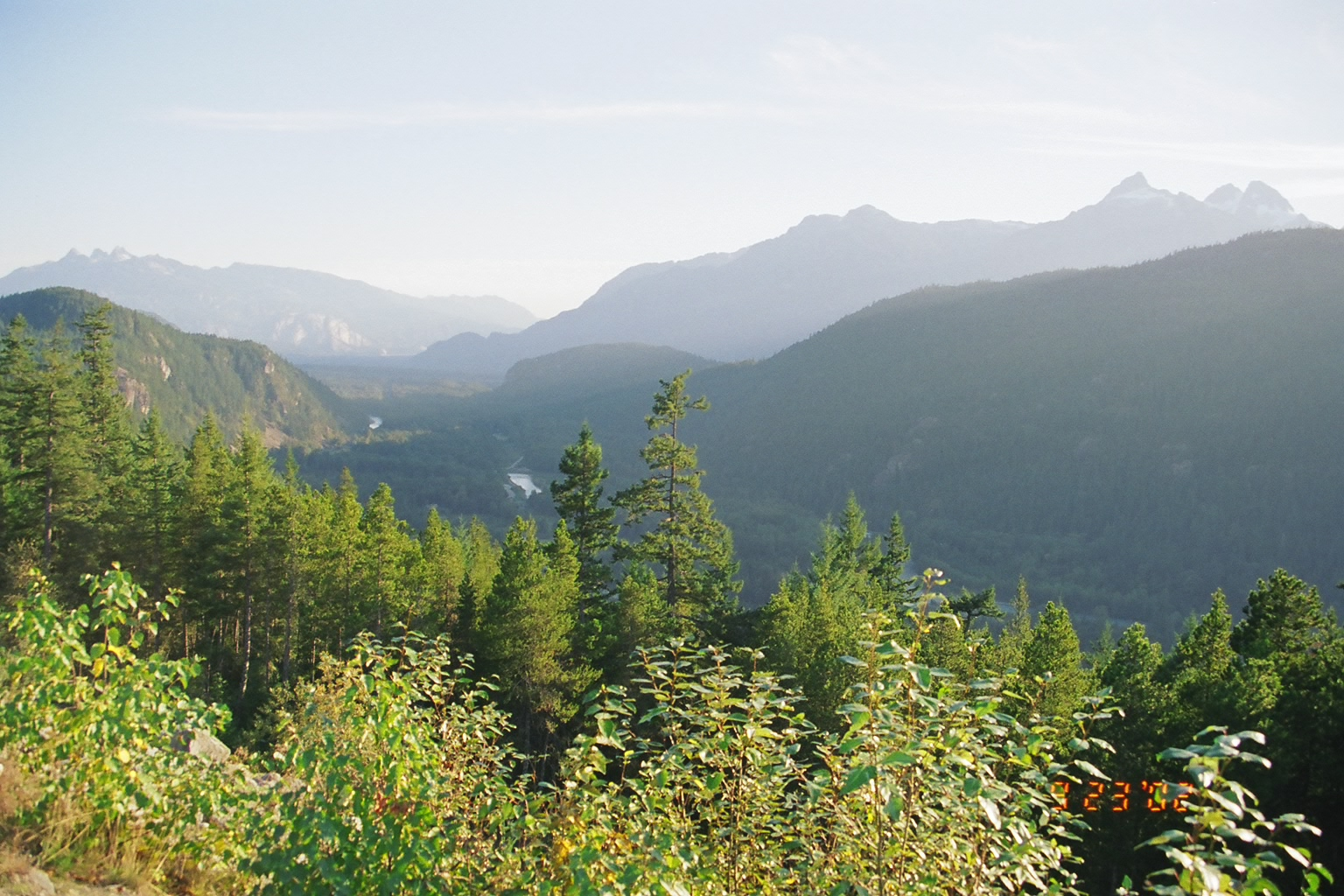 Tantalus Range Photographed and uploaded by user:Geographer.